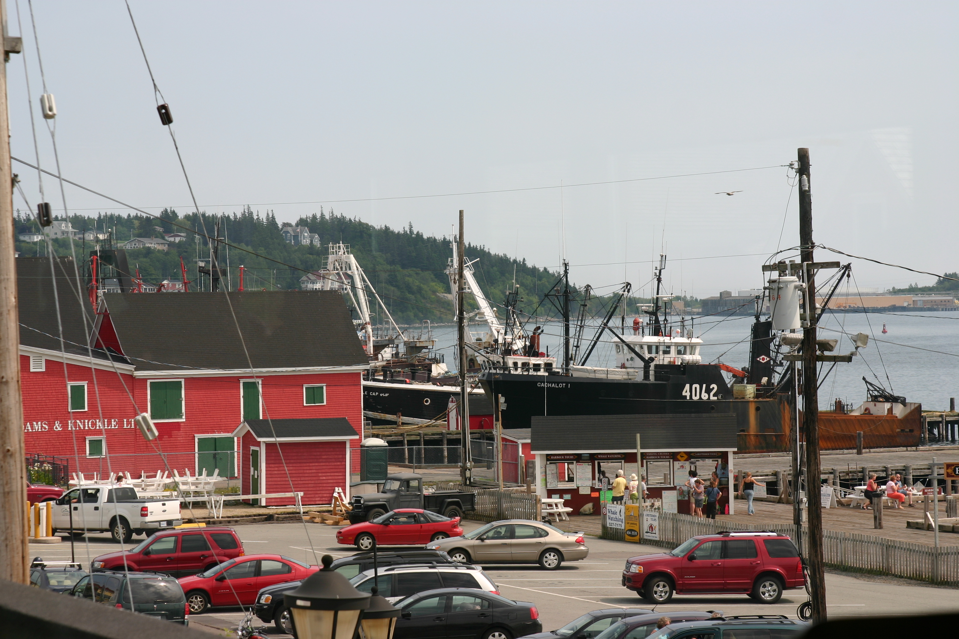 Lunenburg, Harbour view, Nova Scotia, Canada